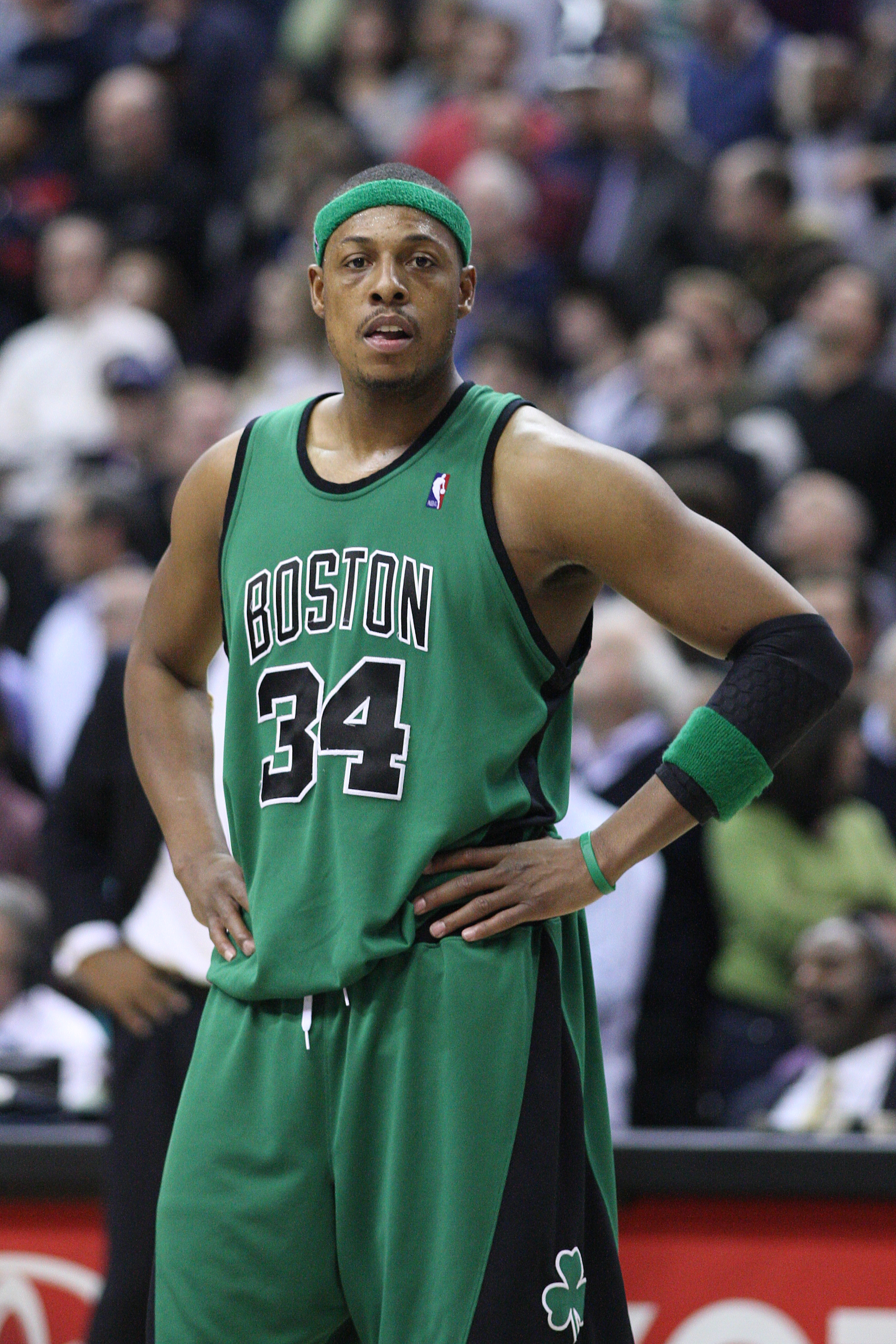 Paul Pierce, American basketball player for the Boston Celtics